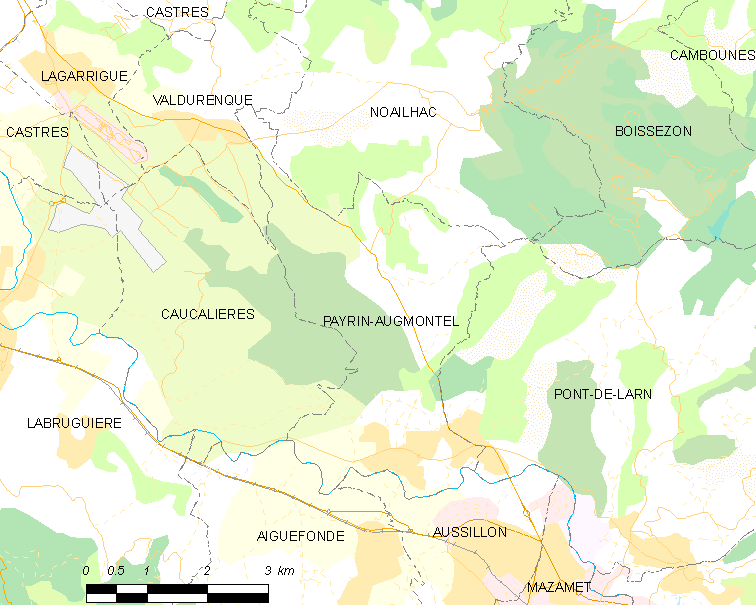 Map commune FR insee code 81204.png - Payrin-Augmontel